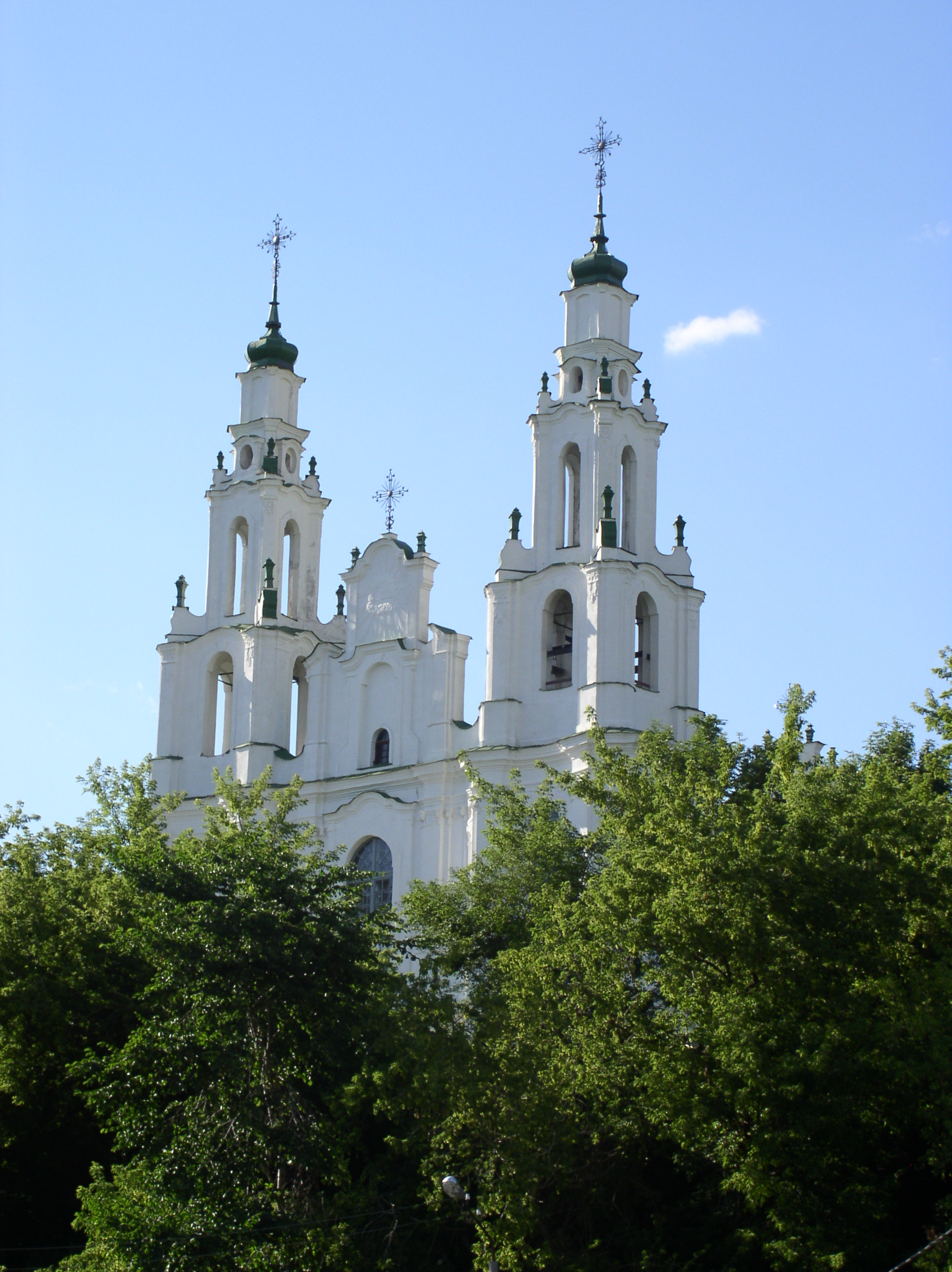 Cathedral of Saint Sophia. Polatsk, Belarus.